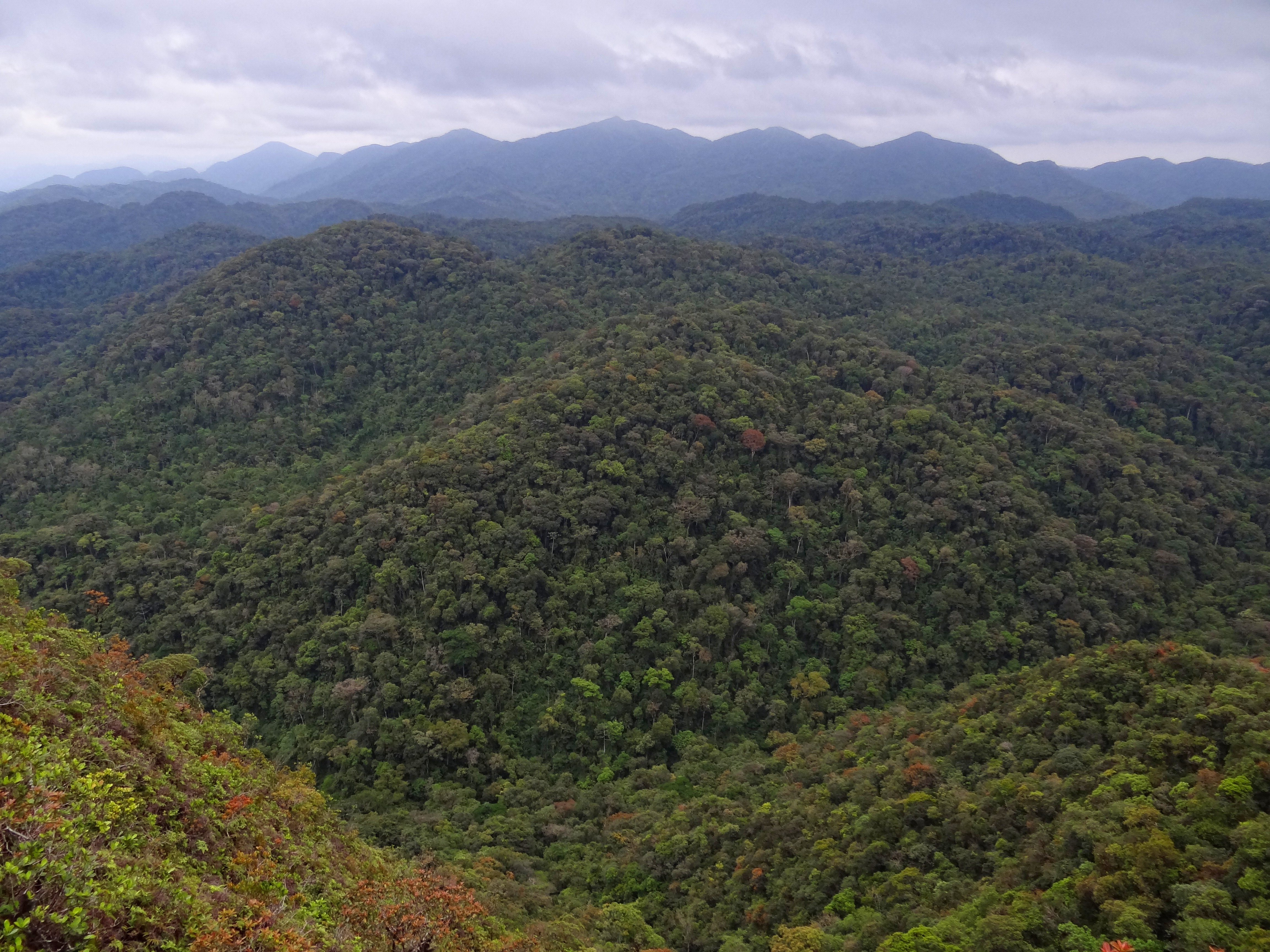 The view from a hilltop in Intervales State Park, São Paulo State, in the Paranapiacaba mountain range / upper Ribeira Valley, 270 km southeast of the state capital, São Paulo. The park is part of the Atlantic Rainforest South-East Reserves World Heritage Site and Mata Atlântica Biosphere Reserve.